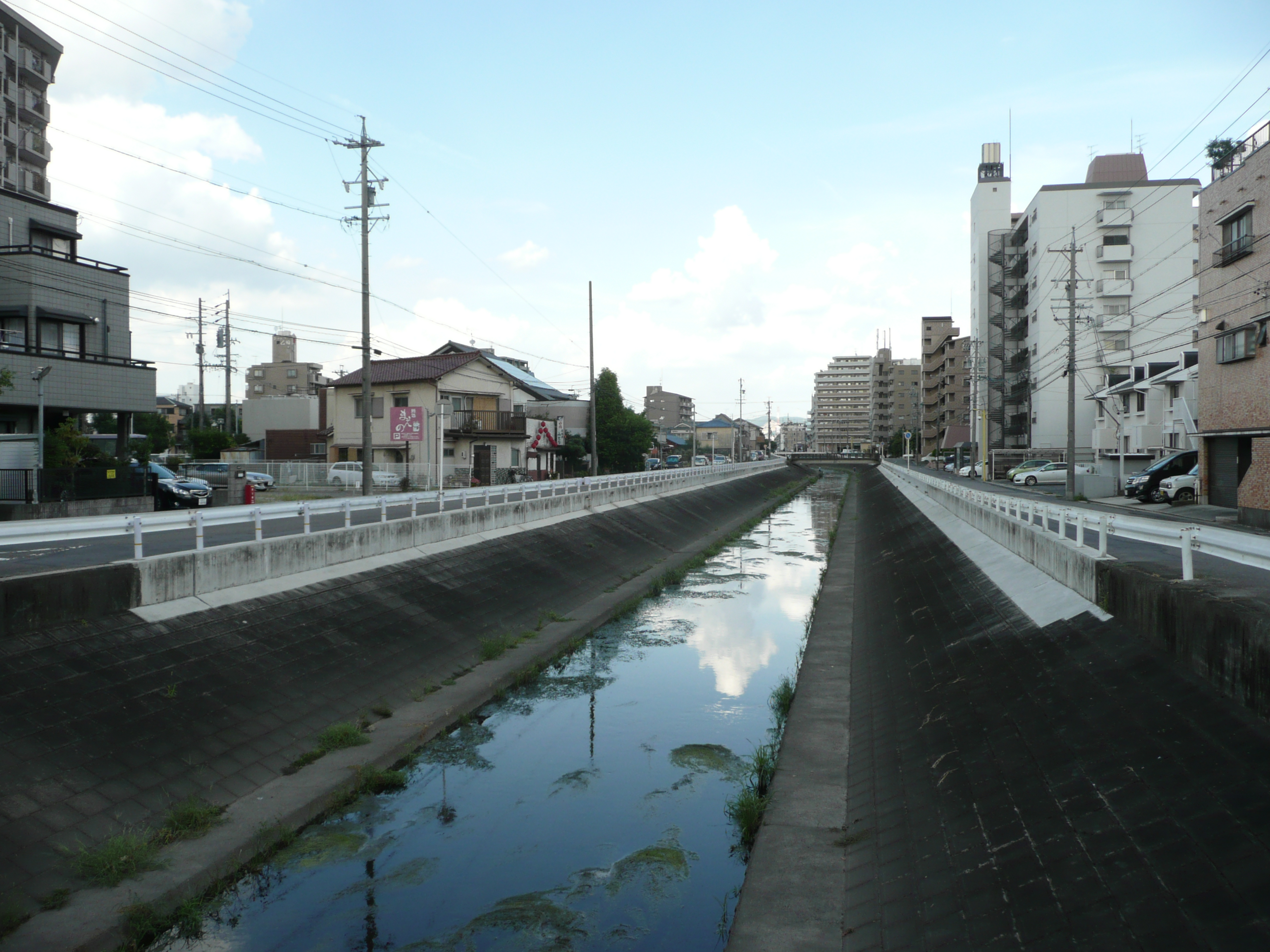 上条町内を流れる地蔵川